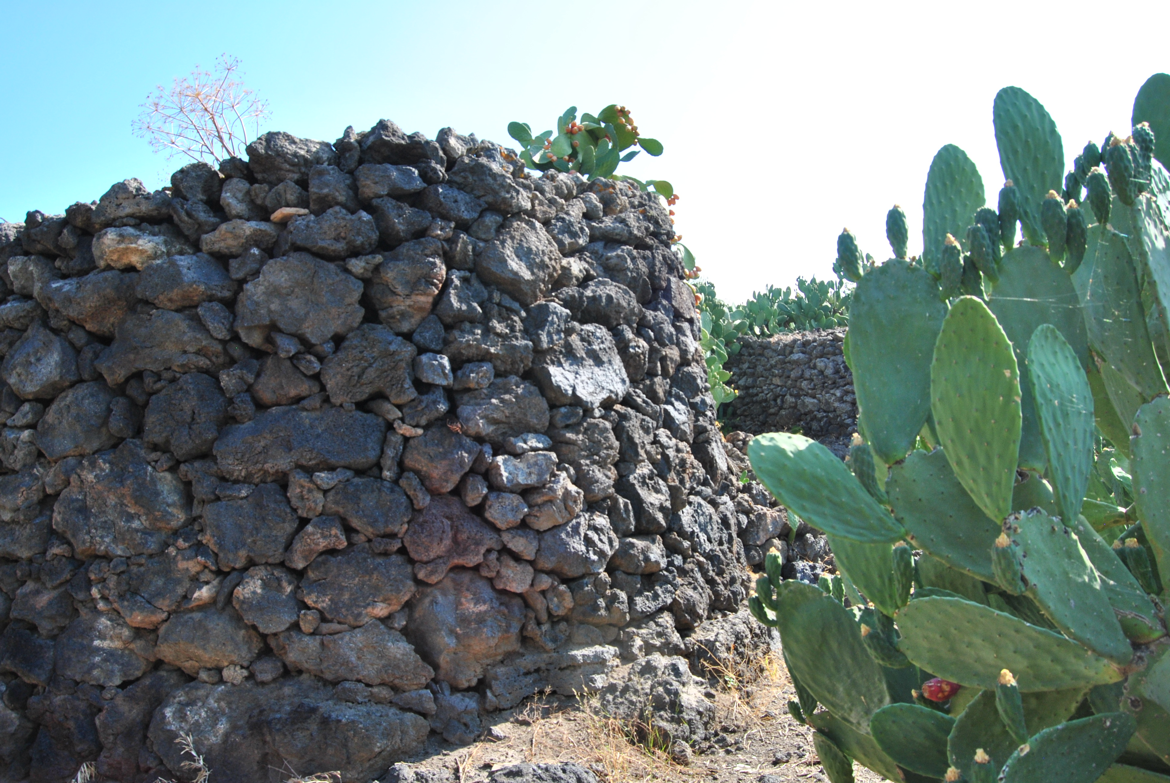 Porta di Mendolito - Torre Est